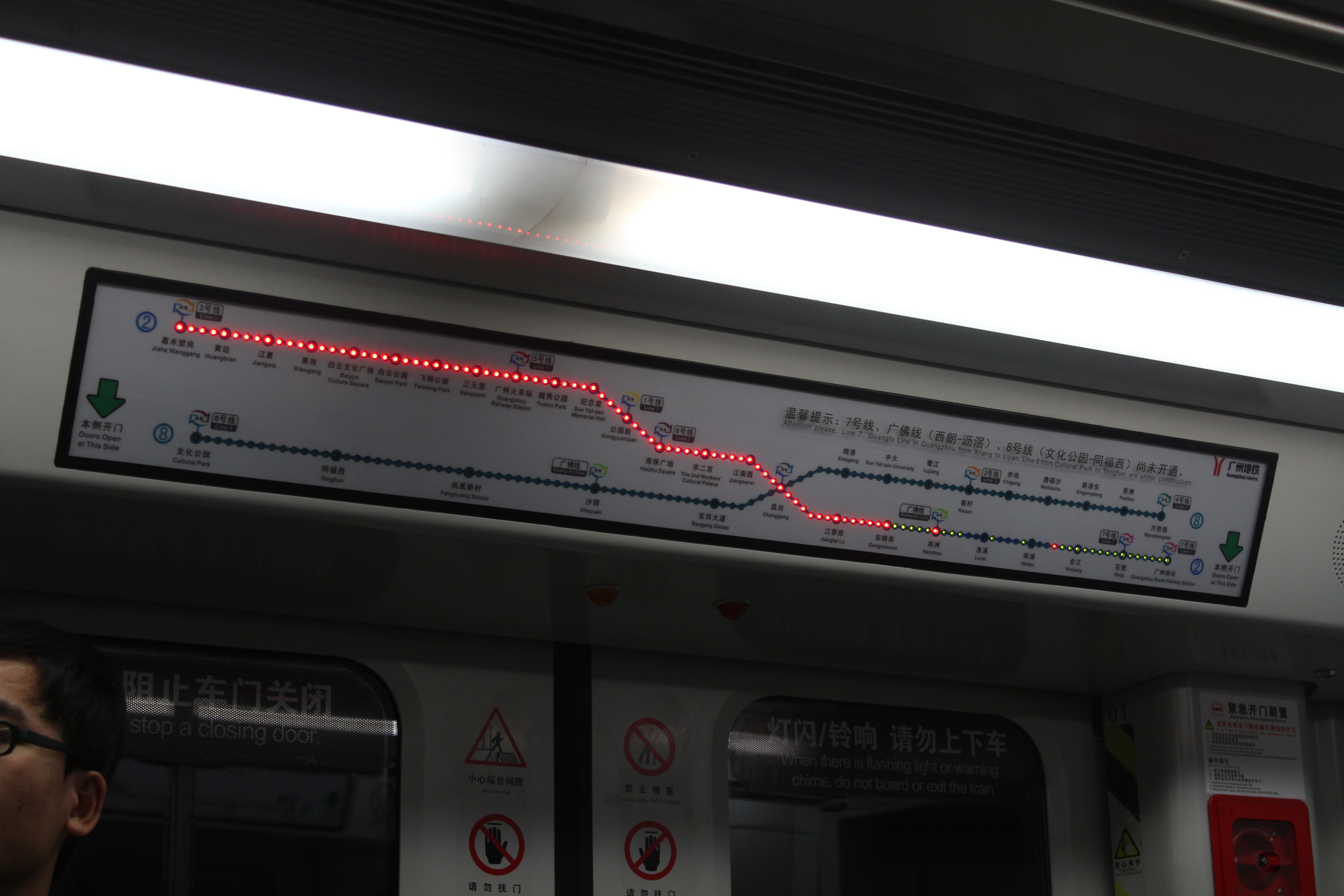 Guangzhou Metro Line 2-CSR L4 train-MapInfomation